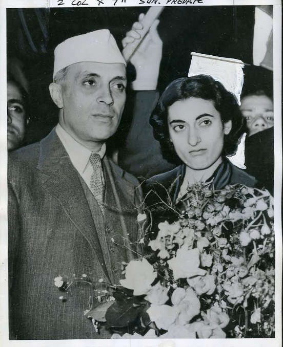 Nehru with Indira; a news bureau photo dated 1946* Source: ebay, Dec. 2010